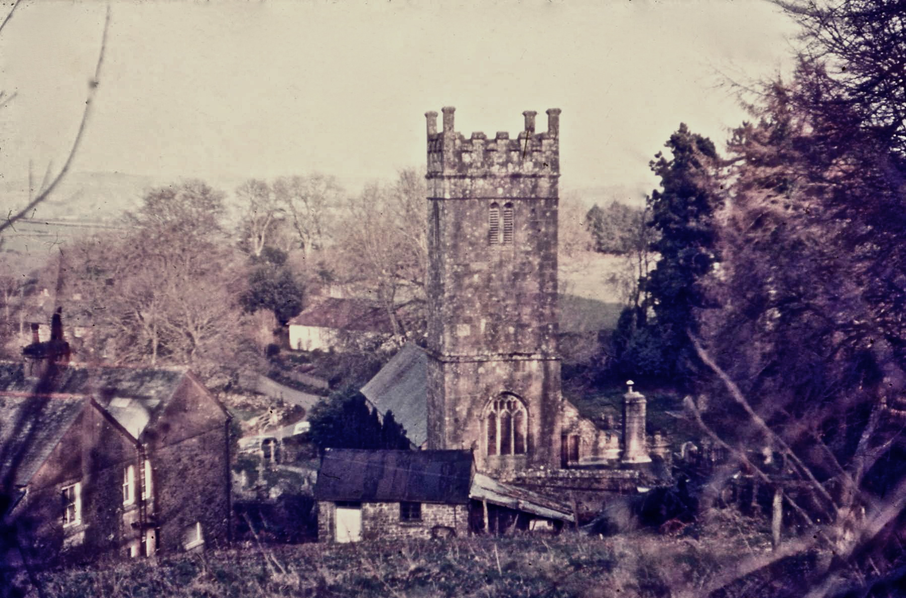 Holy Trinity parish church, Gidleigh, Devon, seen from the west